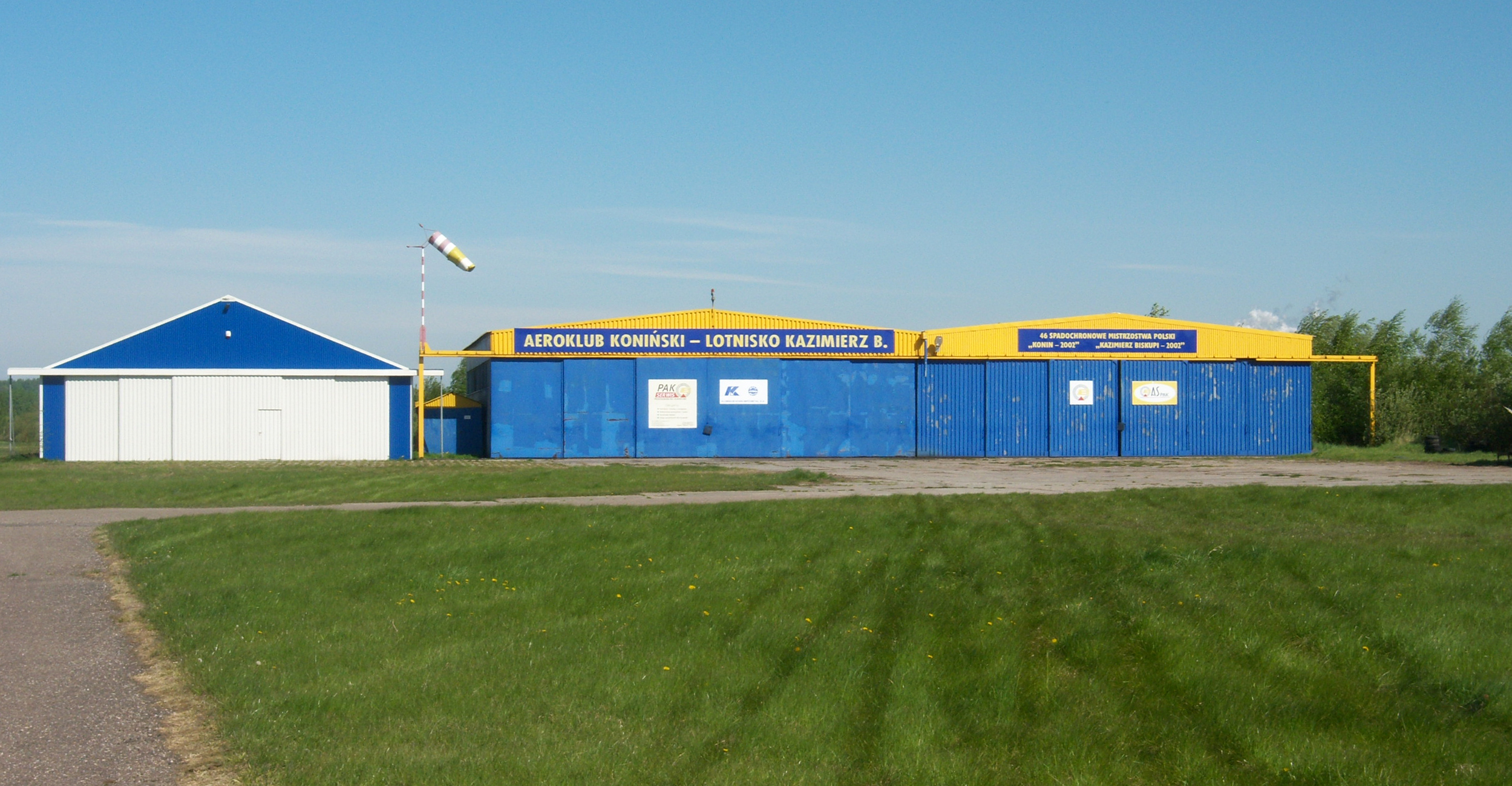 Hangars